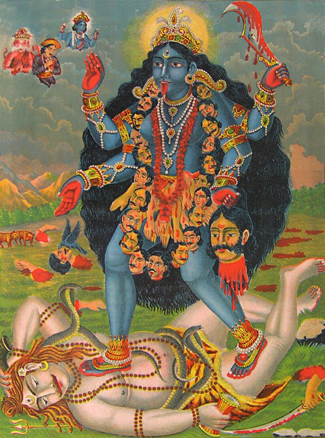 "Album of popular prints mounted on cloth pages. Colour lithograph, lettered, inscribed and numbered 27. Kali, draped with a necklace of skulls, stands on Shiva. The surrounding landscape is littered with body parts. The figures of Brahma, Vishnu and another are seen observing the scene from within the clouds. See 2003,1022,0.53 for a depiction of Tara standing on Shiva from the same series."